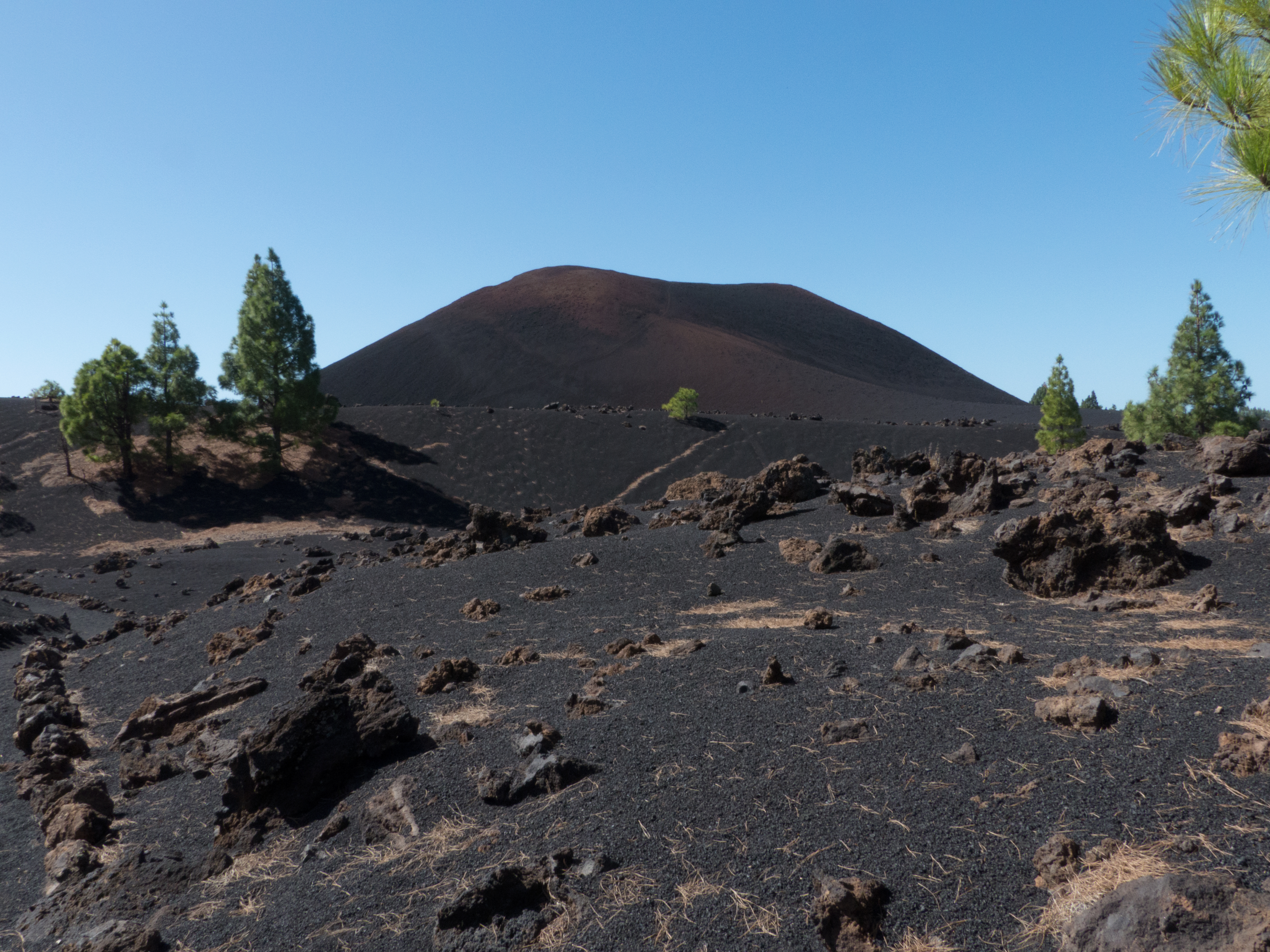 Chinyero, Tenerife, Canary Islands, Spain. October 2014.